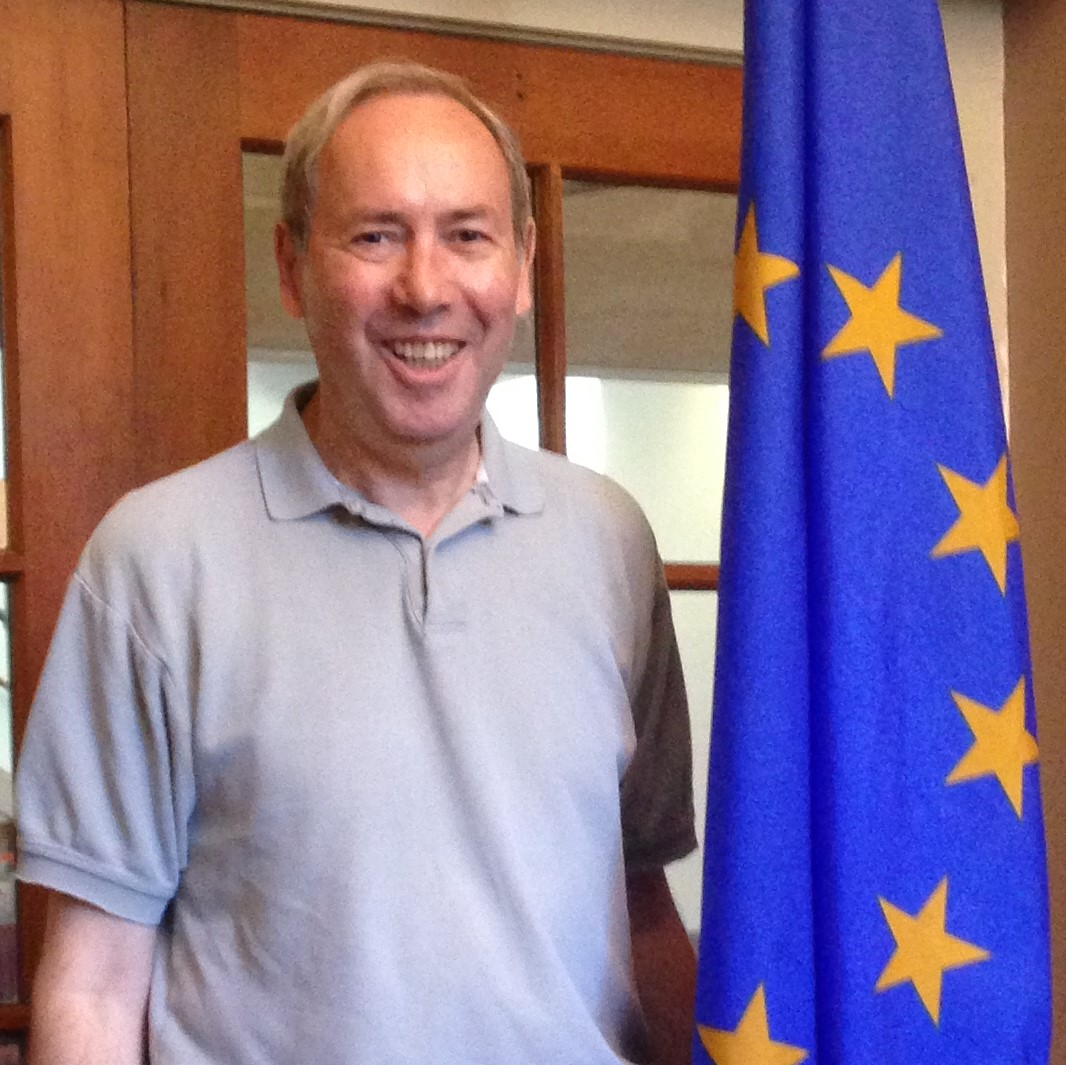 This is a picture of David Blackbourn.